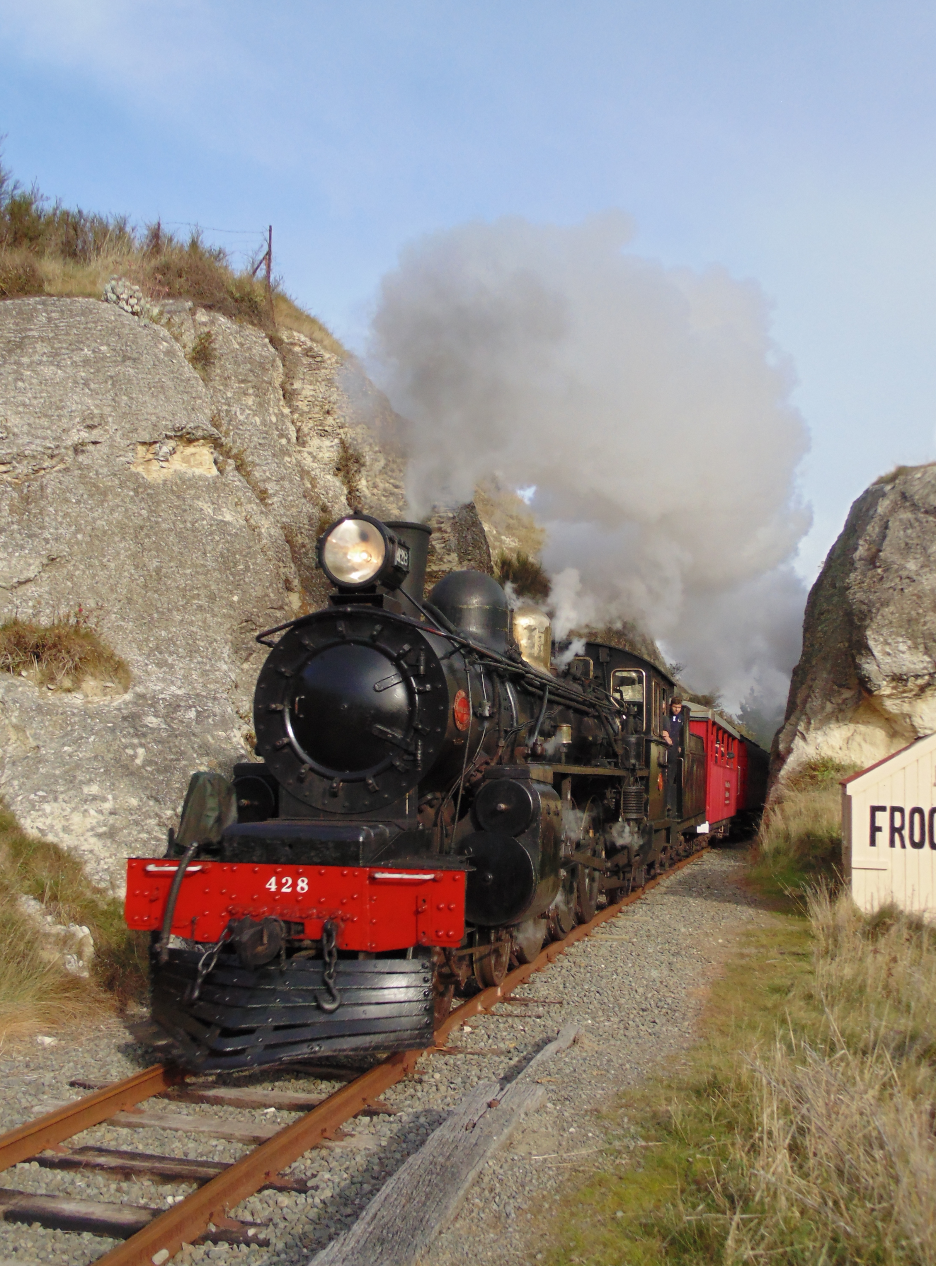 NZR A class No. 428 at Frog Rock on the Weka Pass Railway.